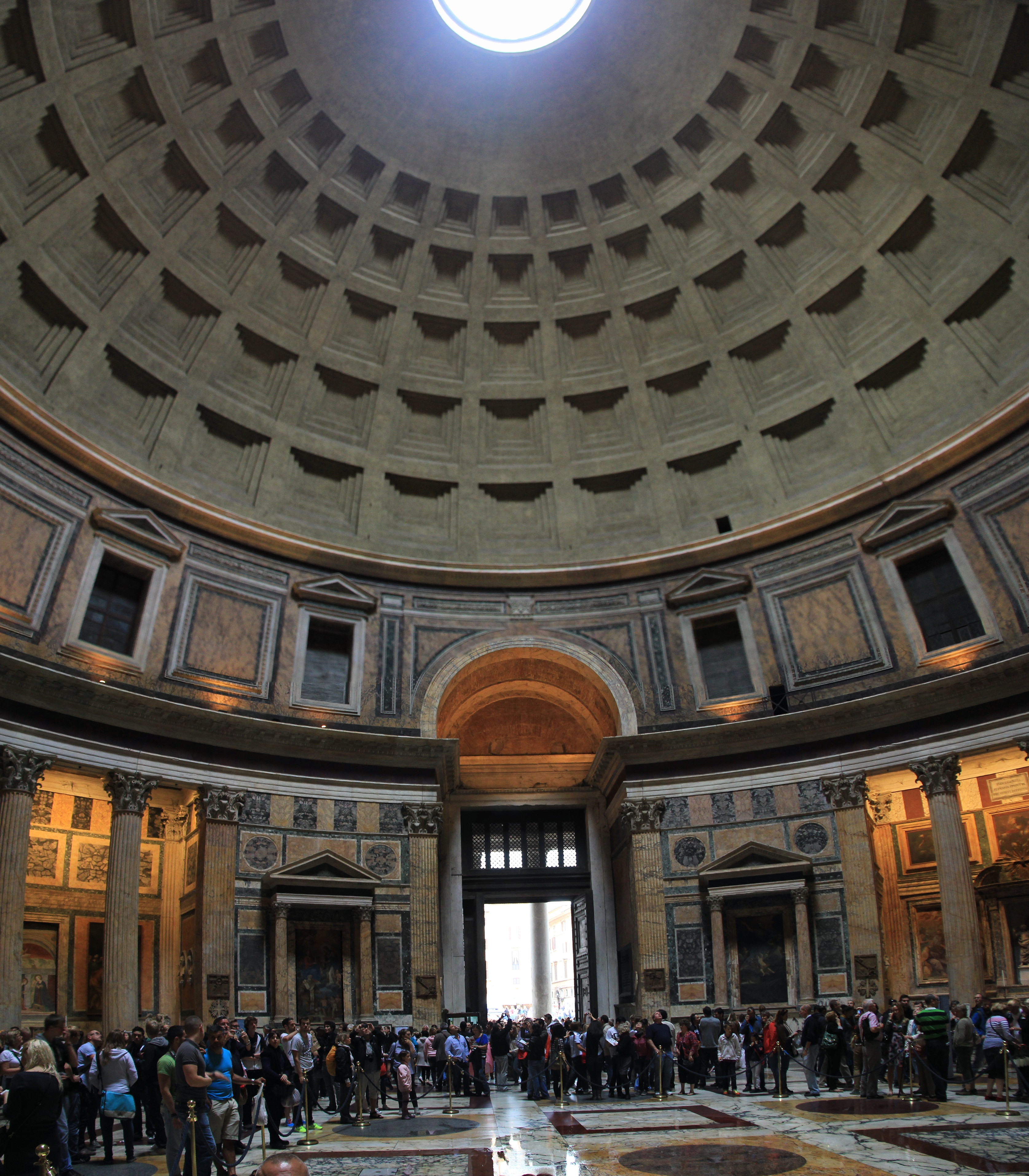 Pantheon (Rome), interior